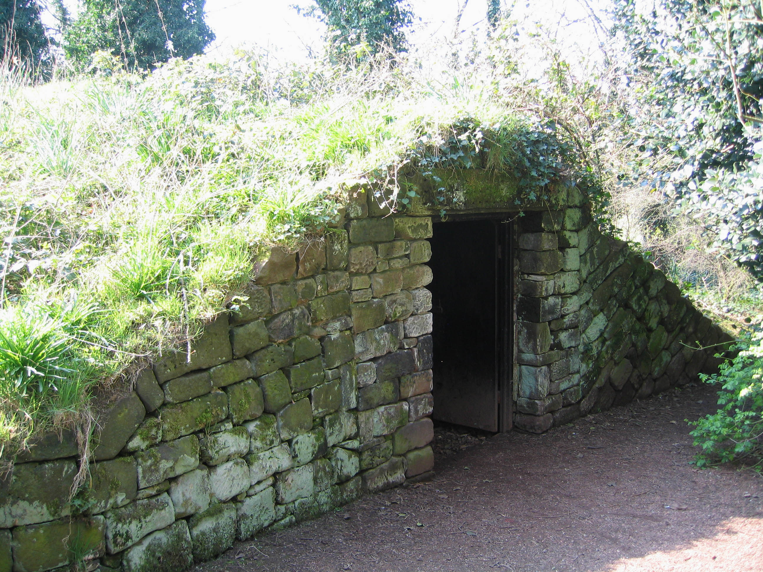 Photograph taken by me on 1 April 2007. Ice House, Norton Priory, near Runcorn, Cheshire, England. An ice house, probably dating from the 18th century in brick under an earth mound. It is a Grade II listed building